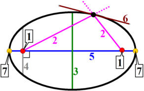 An ellipse and certain points and lines of geometric importance: Focal points ? Minor axis Latus rectum Major axis Tangent ? Antipodal points